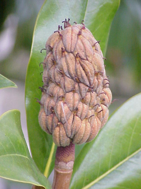 Magnolia grandiflora, family Magnoliaceae, Image no. 3